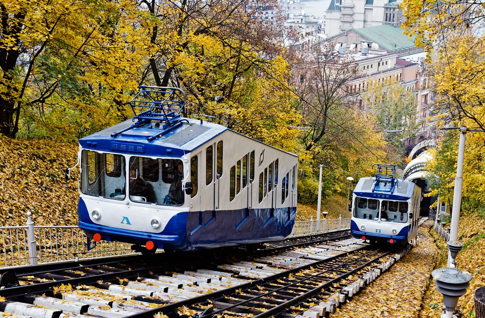 Киевский фуникулер